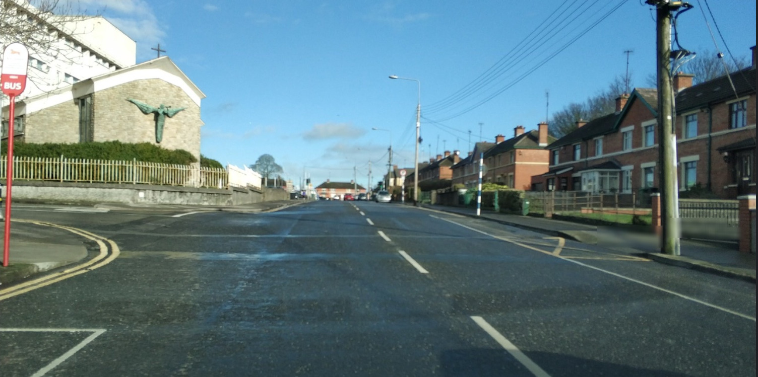 The angel on te outside wall of the nursing home on Hardman's Gardens, Drogheda, Ireland